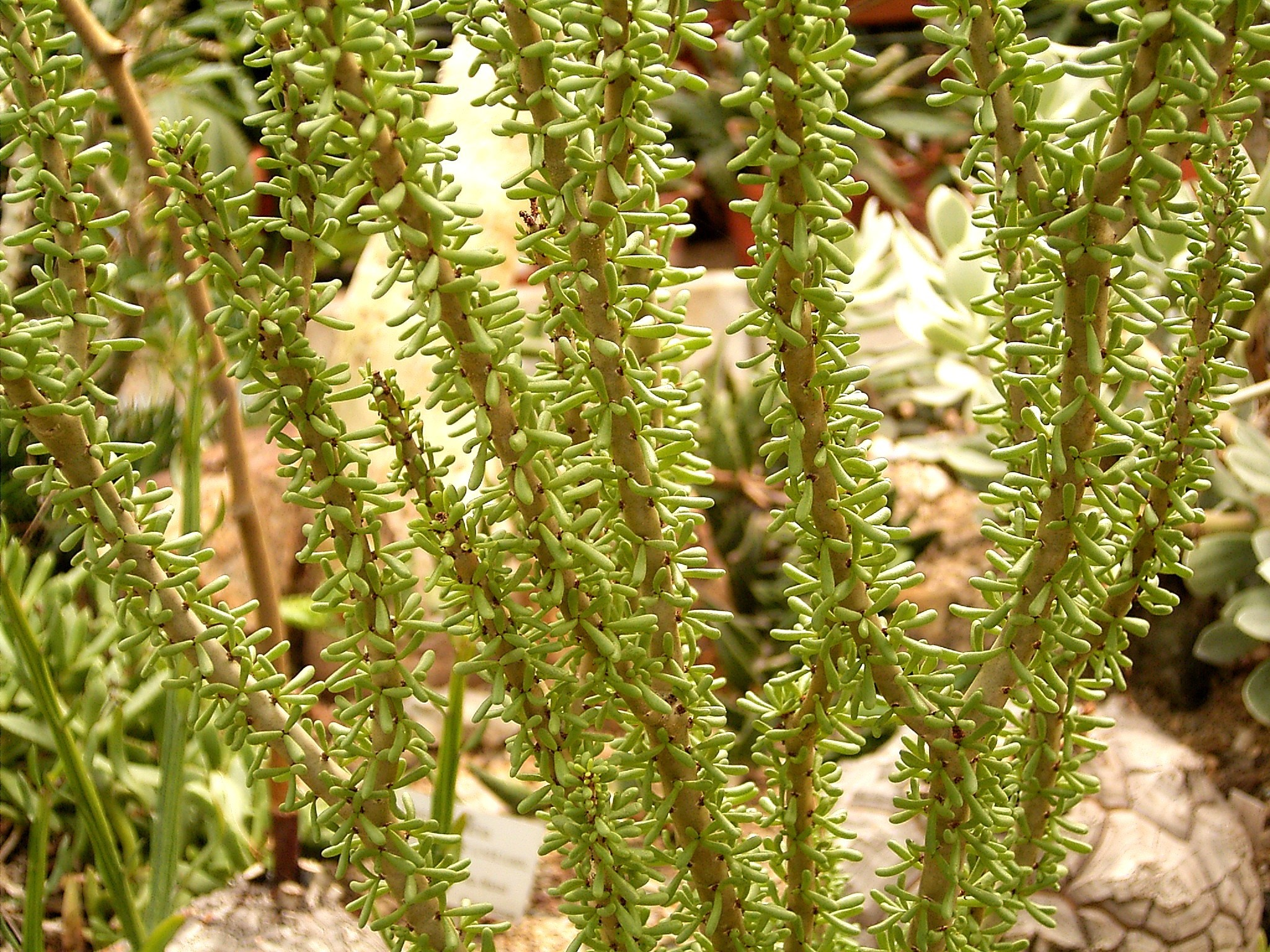 Portulacaria namaquensis, previously Ceraria namaquensis — Namaqua porkbush, Namaqua portulacaria. Native to deserts of Namibia and South Africa.